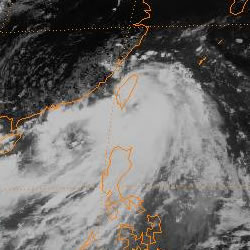 Tropical Storm Caitlin of the 1994 Pacific typhoon season on August 3 at 06Z, taken from the GMS-4 satellite. Cropped from original image.